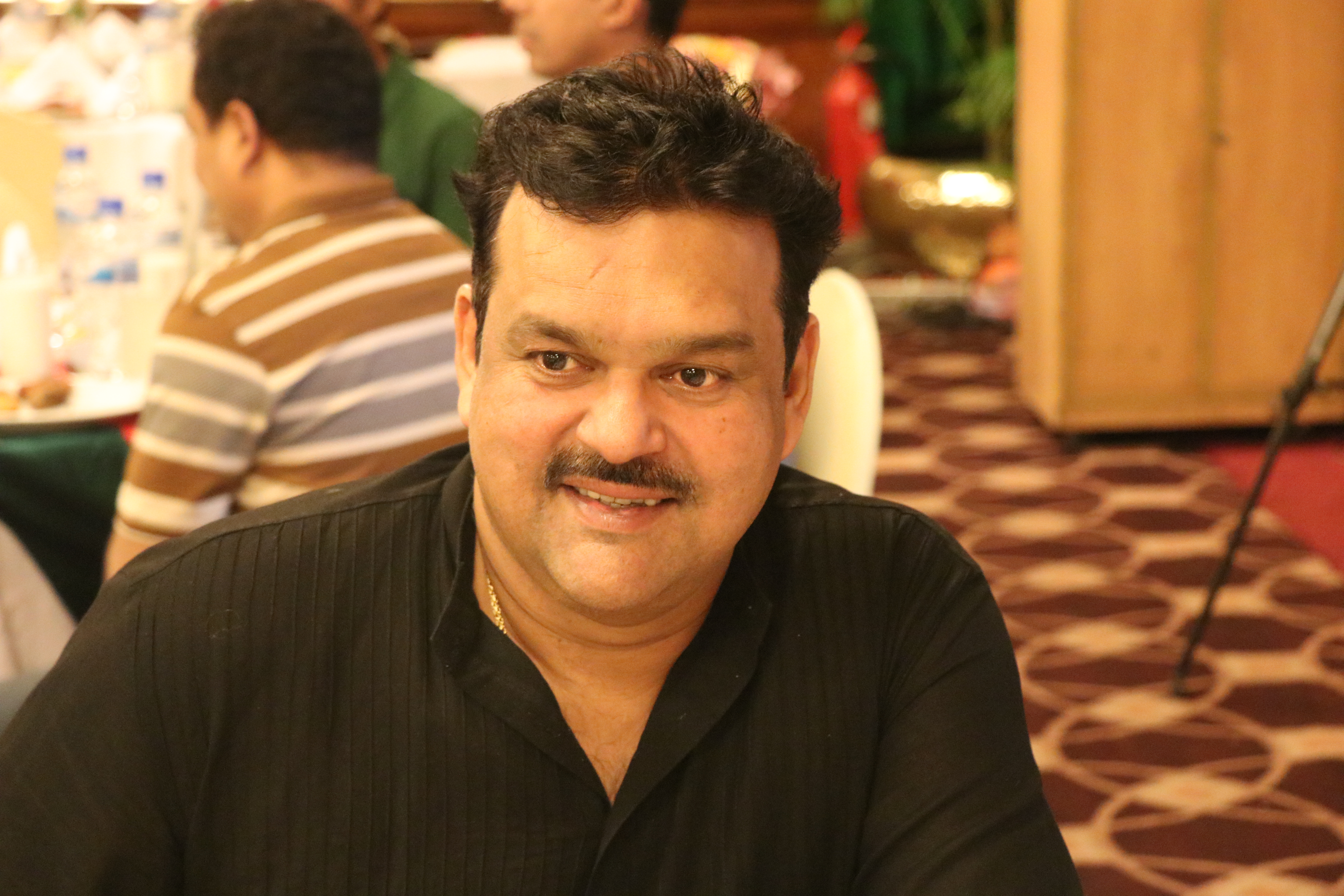 Akram Khan, The former captain of Bangladesh National Cricket team